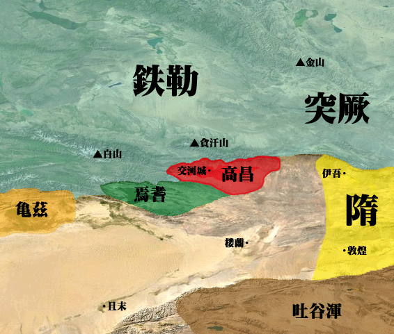 Gāochāng of Sui Dynasty age.